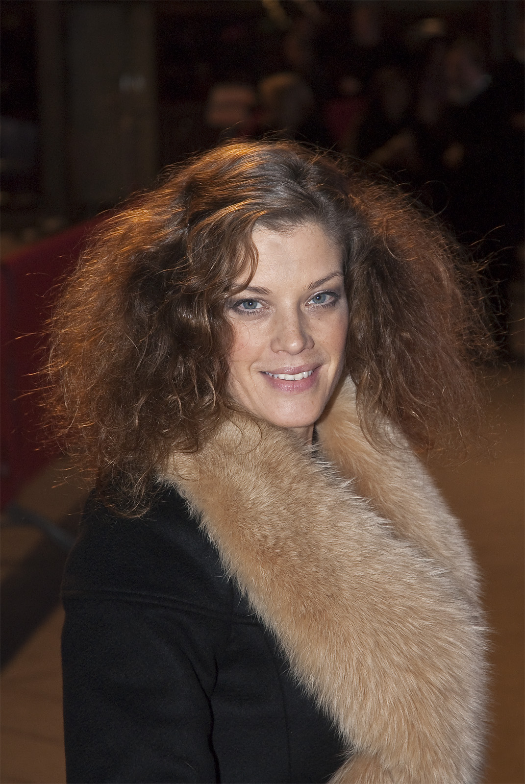 Marie Bäumer, German actress; Opening of the 59th Berlin International Film Festival